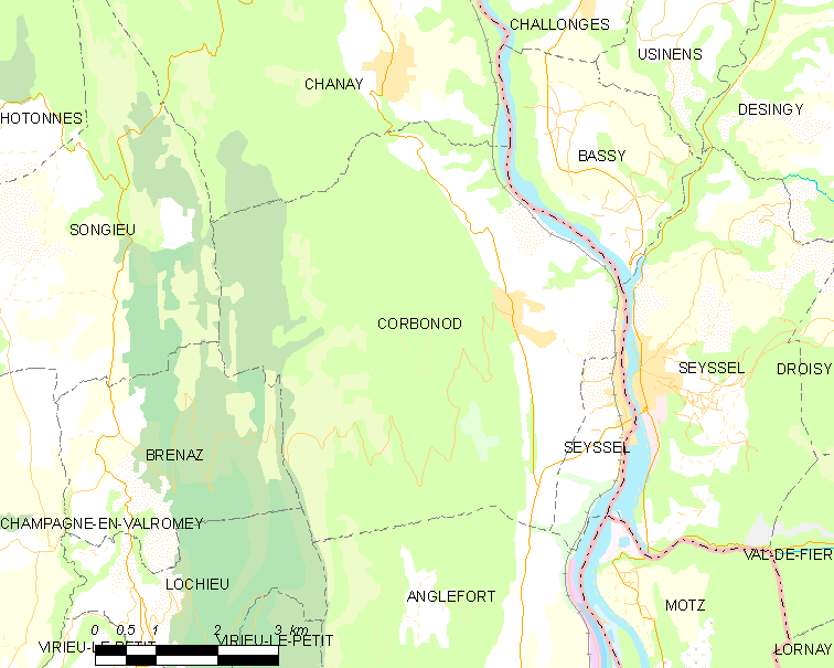 Map of French commune: Corbonod Map commune FR insee code 01118.png